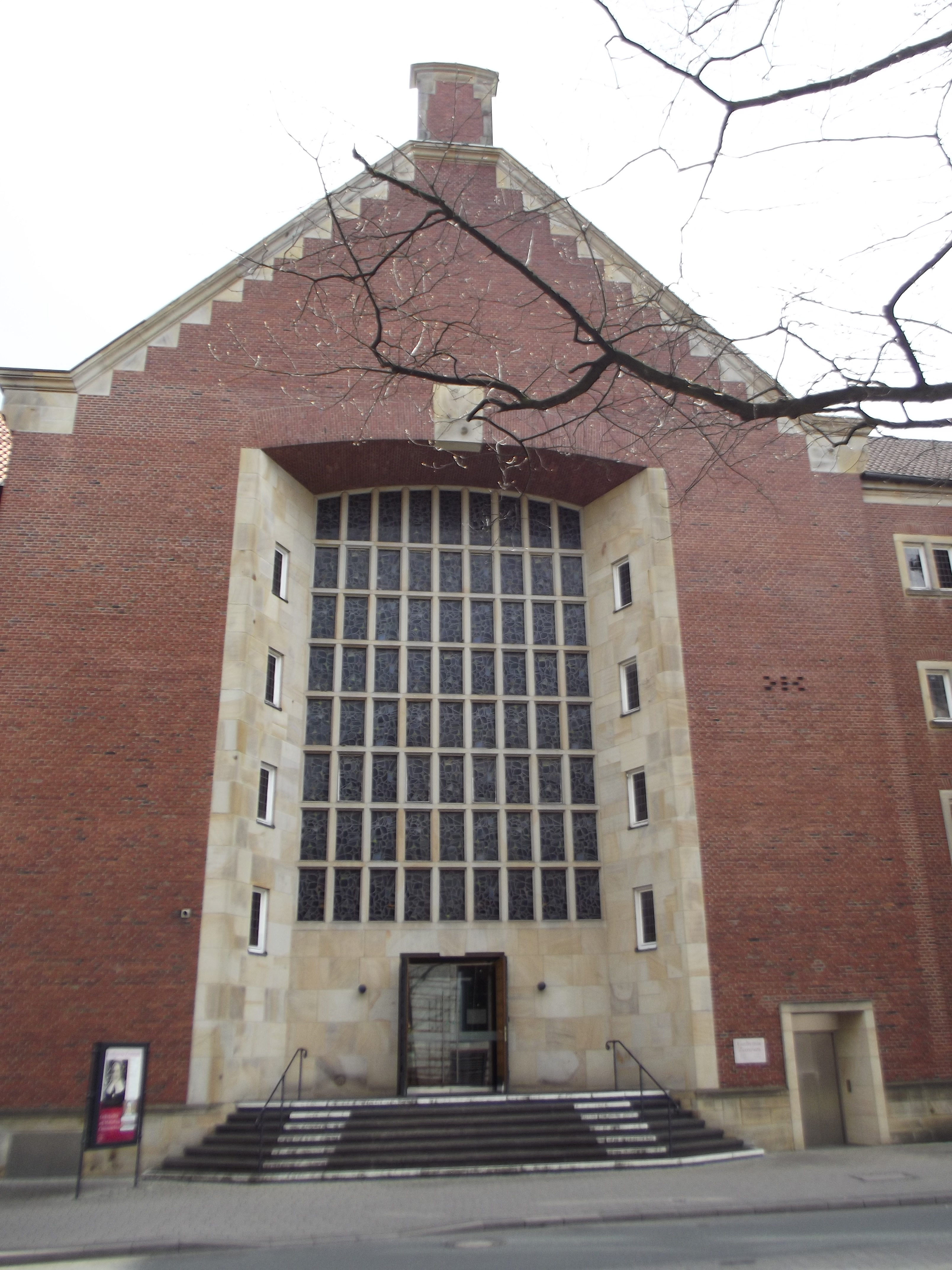 The Catholic centre dedicated to Blessed Sister Euthymia.